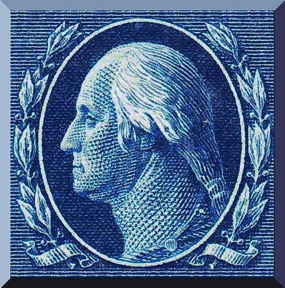 Portion of a Washington Franklin U.S. Postage stamp, 1917 issue depicting profile of Washington and Laural only, image rendered with frame.